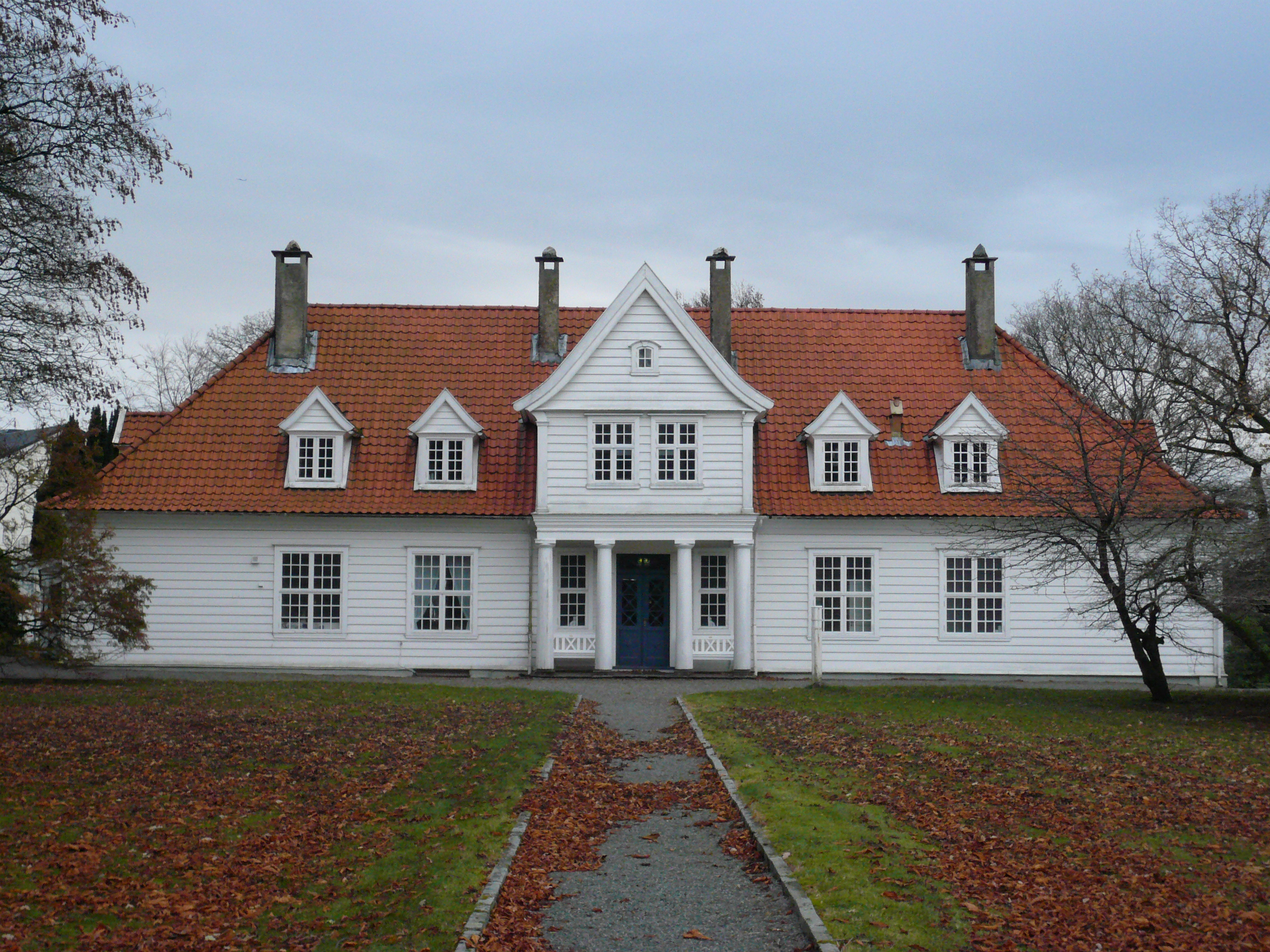 Stend hovedgård, Bergen, Norway